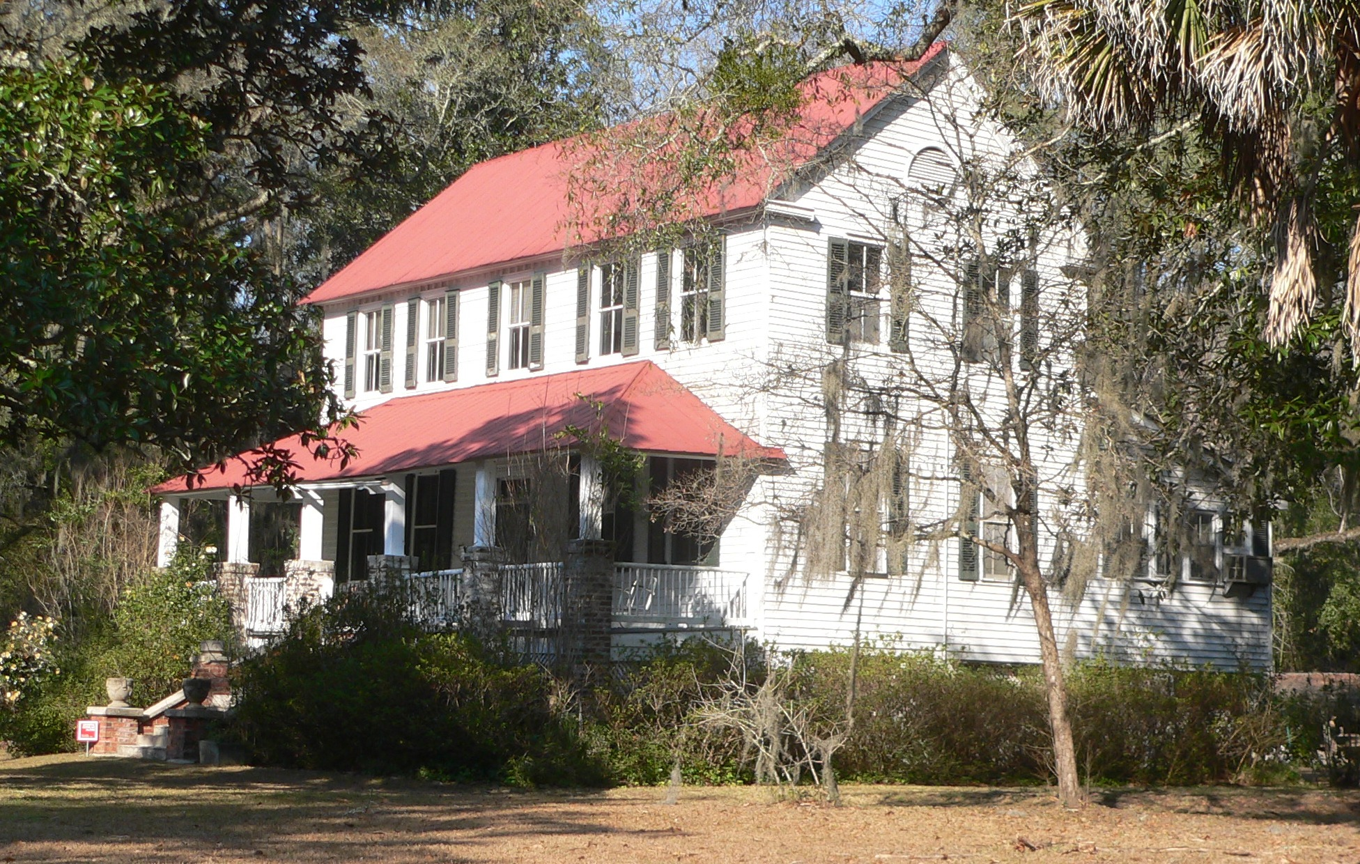 Wilkinson-Boineau house, located at 5185 Highway 174 in Adams Run, South Carolina.